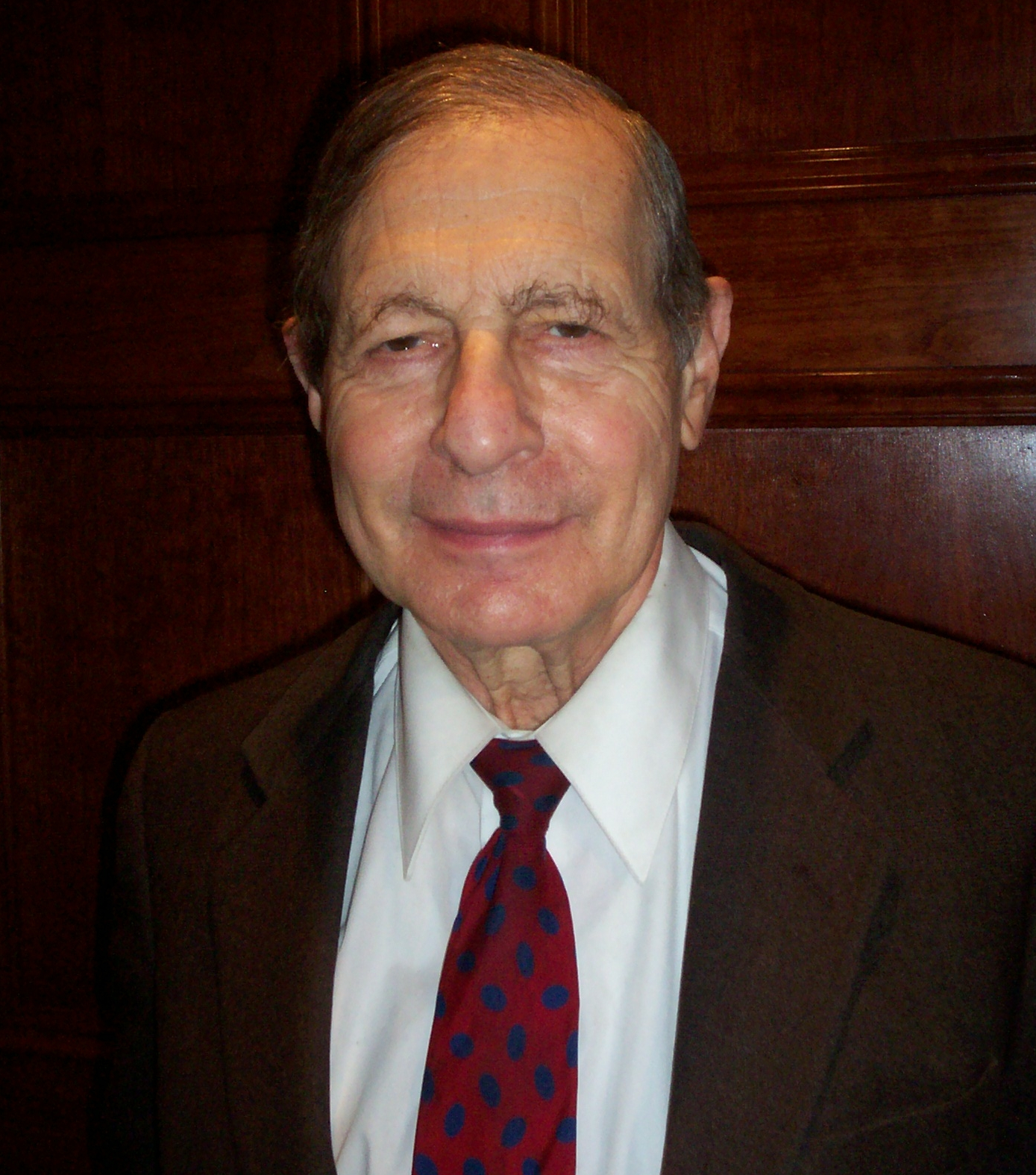 Harvey Jerome Brudner on April 12, 2007 at the Somerset Diner on Easton Avenue in Somerset, New Jersey